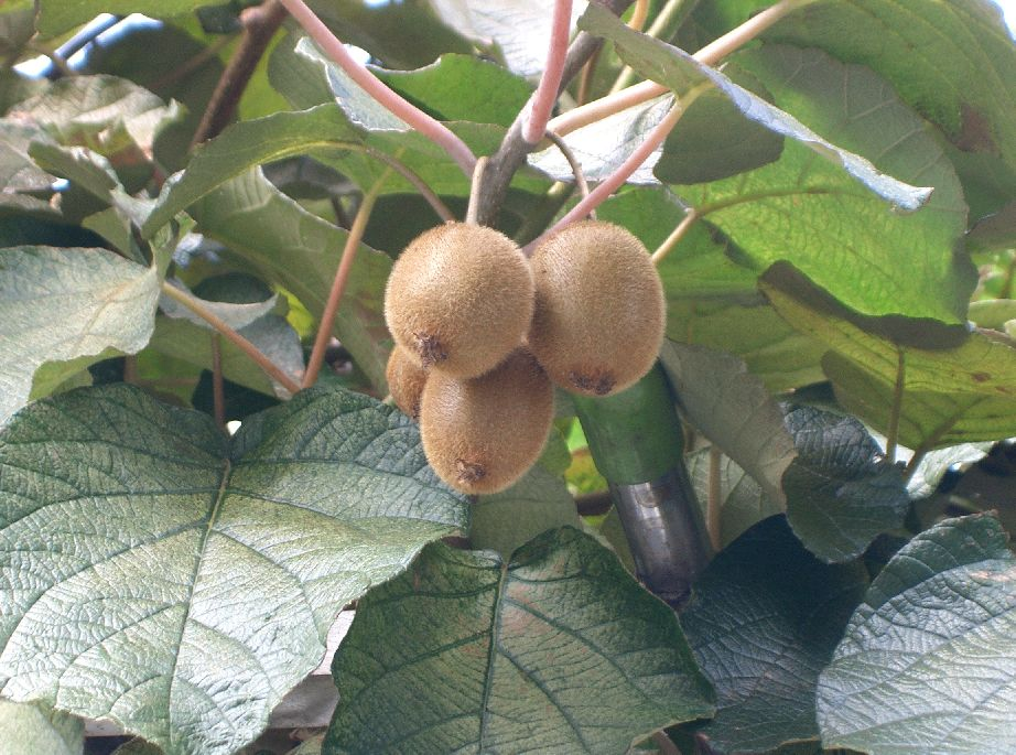 Actinidia chinensis